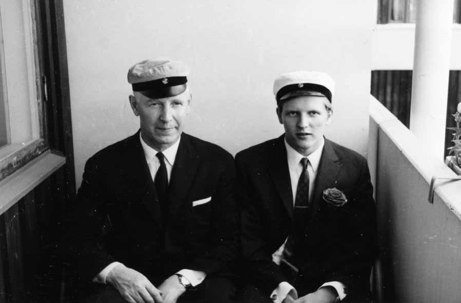 Photograph of the Ingrian-Finnish agronomist Leo Yllö (1915–1978) with his youngest son Matti.